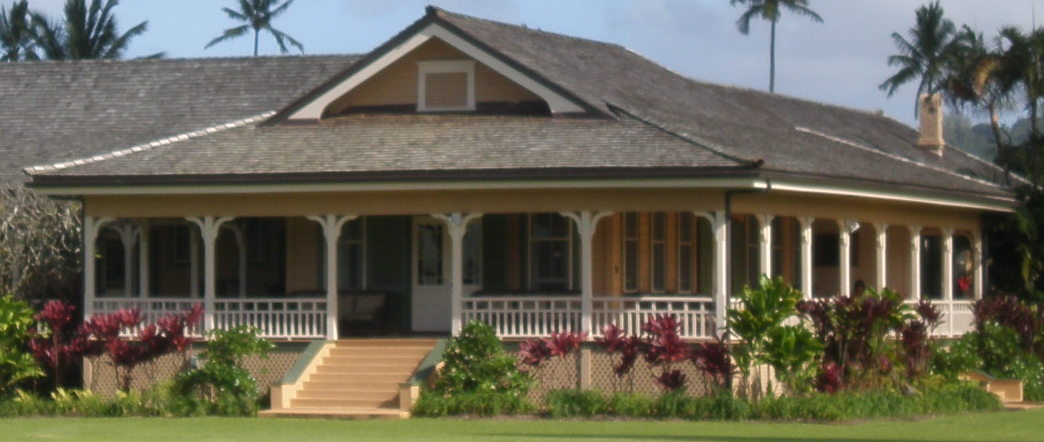 Albert Spencer Wilcox beach house, 4943 Weke Rd., Hanalei, Kauai, on National Register of Historic Places